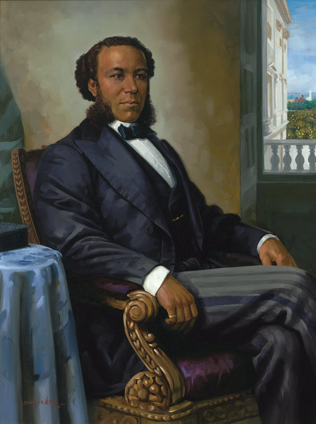 Joseph Rainey, member of the United States House of Representatives.